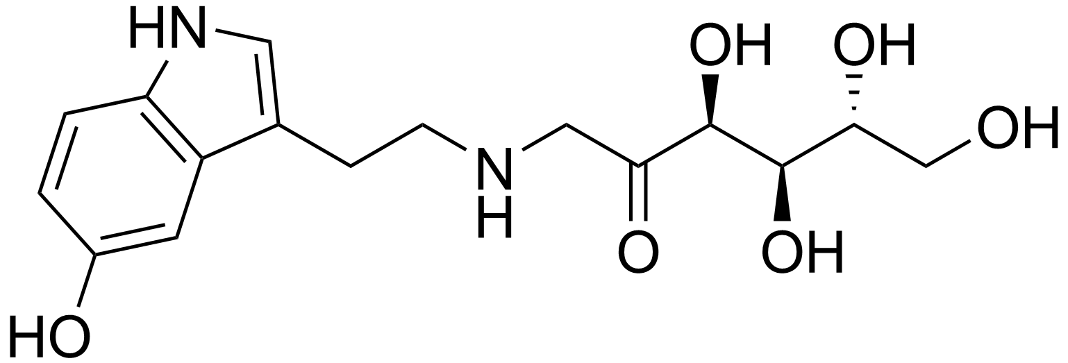 Chemical structure of desoxyfructo-serotonin